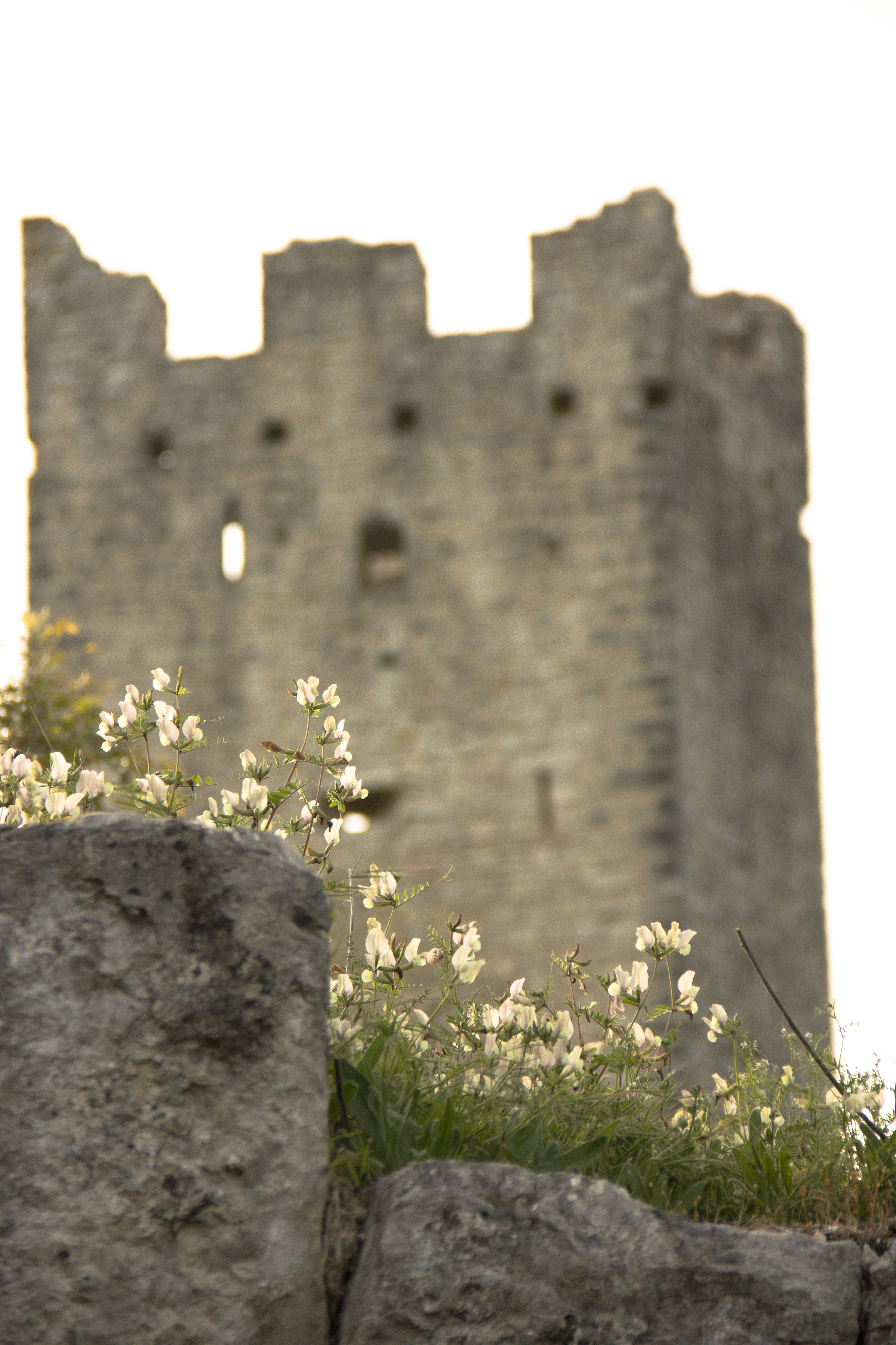 dvigrad castle